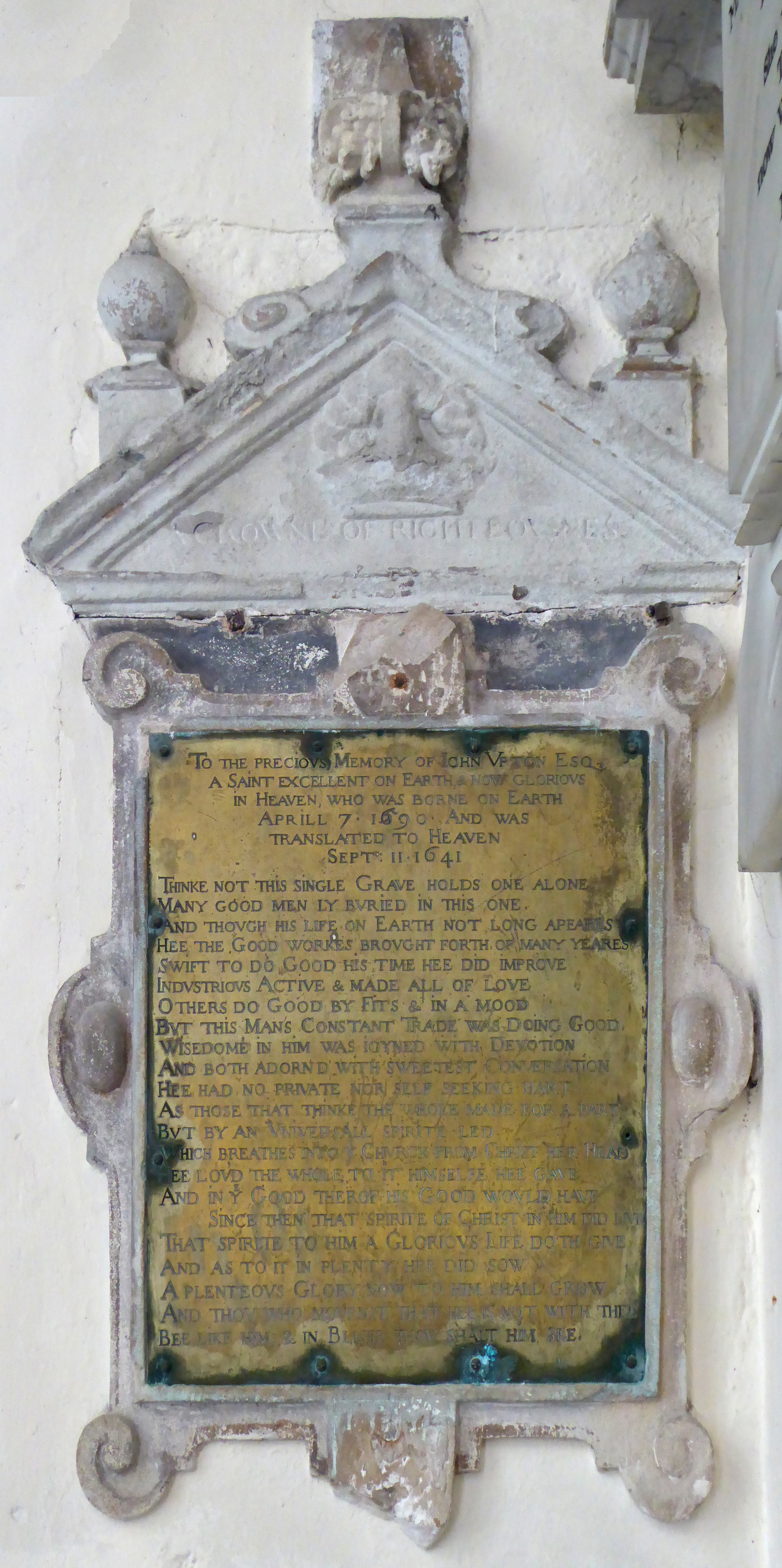 Mural monument in St Mary's Church, Brixham, Devon, of John Upton (1590-1641) of Lupton in the parish of Brixham, MP for Dartmouth. The brass tablet affixed to the stone monument is inscribed as follows: "To the precious memory of John Upton Esq., a saint excellent on Earth & now glorious in Heaven, who was borne on Earth Aprill 7 1590 and was translated to Heaven Sept. 11 1641. Thinke not this single grave holds one alone, Many good men ly buried in this one, And though his life on Earth not long apeares, Hee the good workes brought forth of many yeares; Swift to do good his time he did improve, Industrious active & made all of love; Others do good by fits & in a mood, But this man's constant trade was doing good; Wisedome in him was joyned with devotion, And both adorn'd with sweetest conversation; He had no private nor self seeking hart, As those that thinke the whole made for a part, But by an universall spirite led, Which breathes into ye Church from Christ her head; He lov'd the whole to it himselfe hee gave, And in ye good therof his good would have, Since then that spirite of Christ in him did live, That spirite to him a glorious life doth give; And as to it in plenty hee did sow, A plenteous glory now to him shall grow, And thou who mourn'st that hee is not with thee, Bee like him & in blisse thou shalt him see".